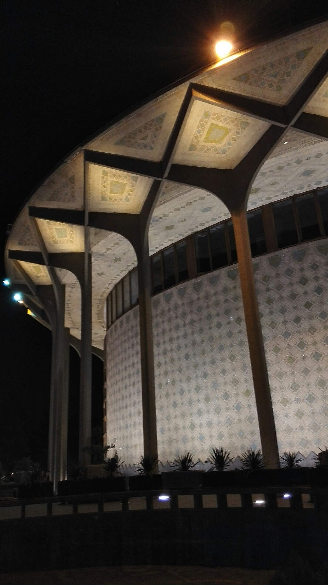 Theatre-shahr is a great monument located in Tehran which has been a place for holding theatres for many years